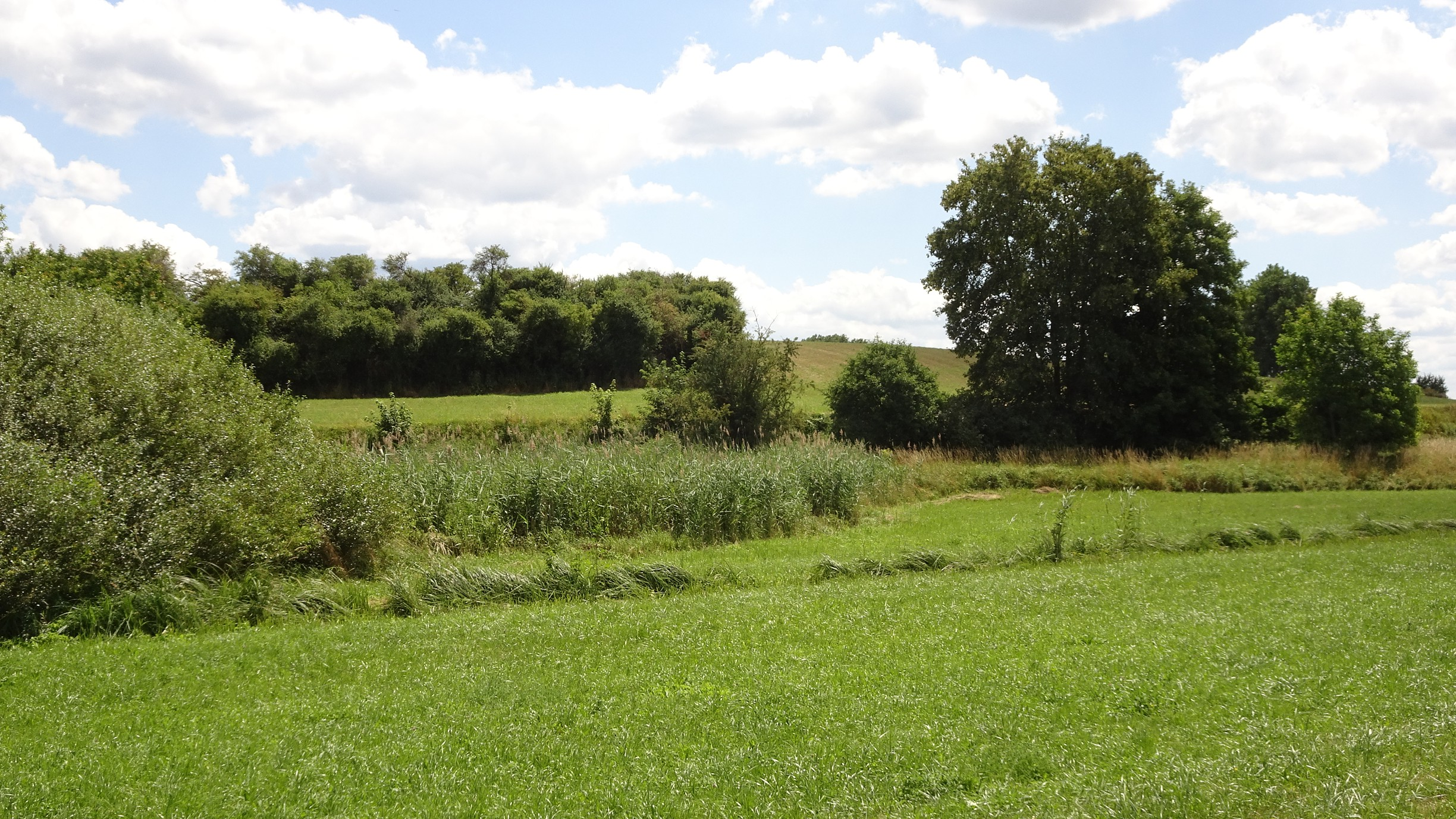 Protected area "Taubensemd von Habitzheim, Semd und Groß-Umstadt" (Landkreis Darmstadt-Dieburg, Hesse, Germany).